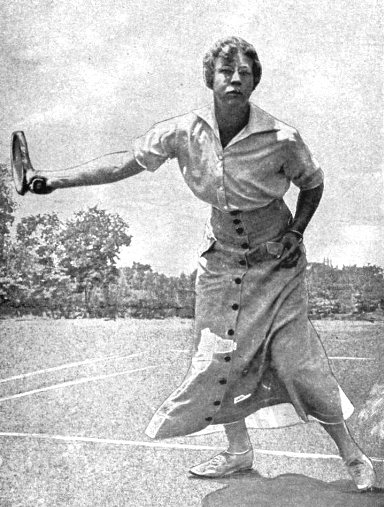 A white woman playing tennis in a long buttoned skirt and short sleeved blouse, from a 1919 publication.